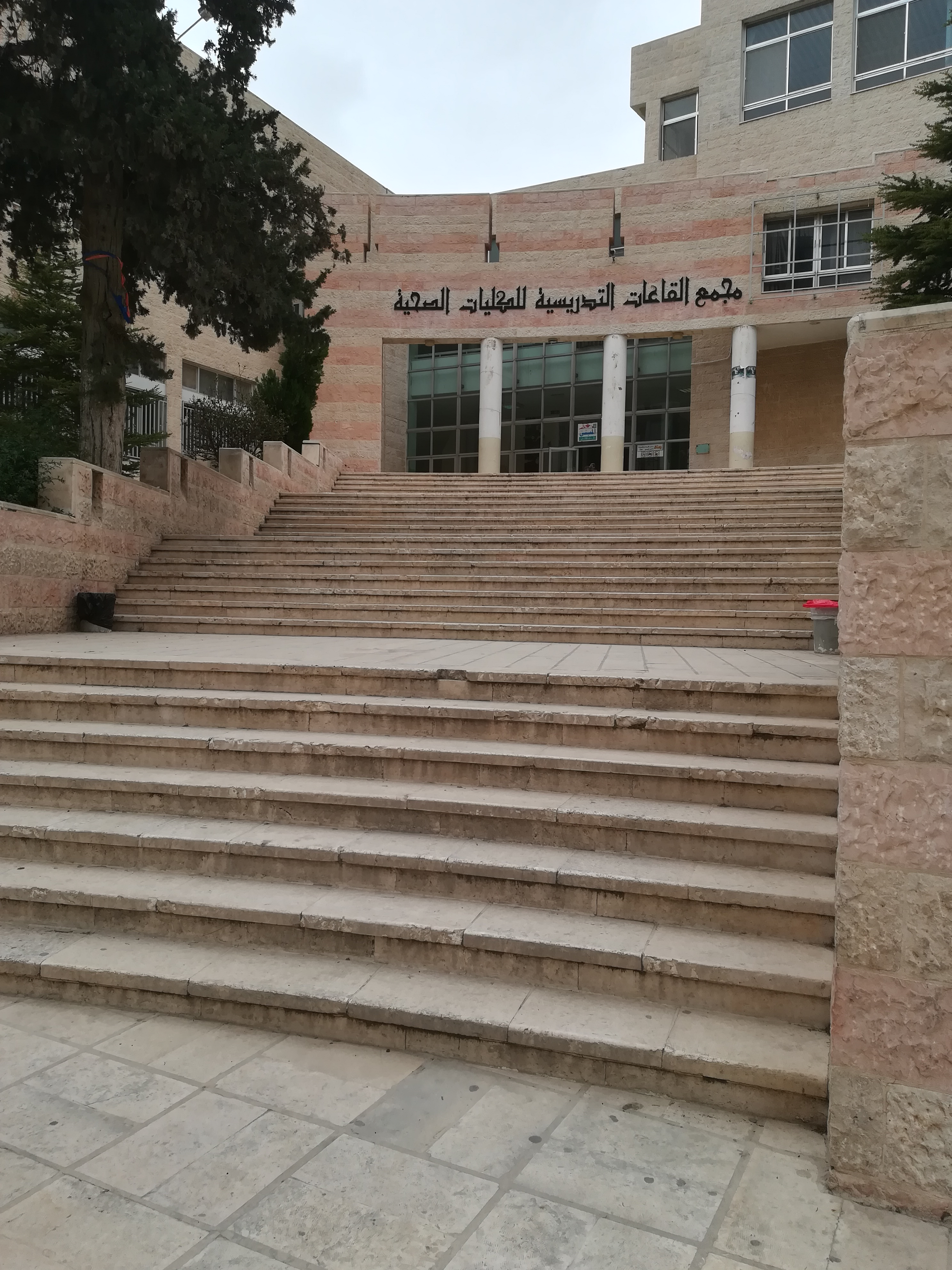 Medical Halls building in University of Jordan